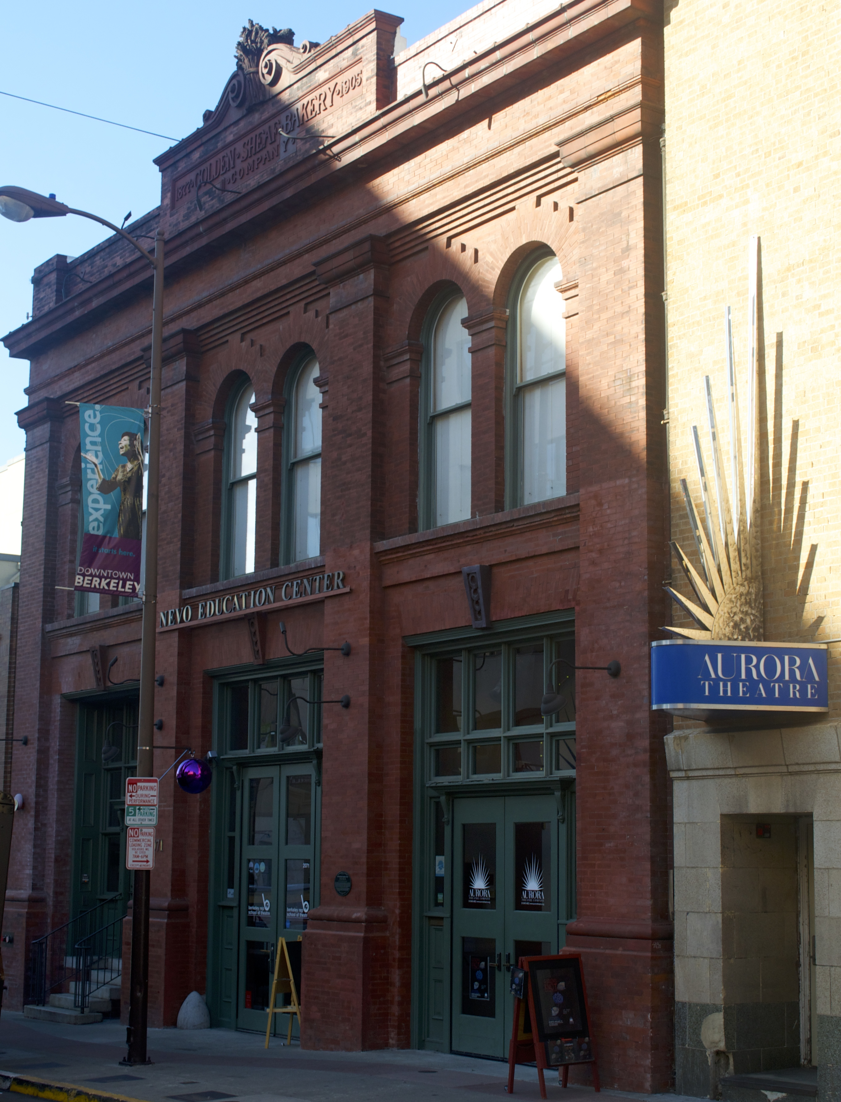 Aurora Theatre, 2081 Addison St., Berkeley, California